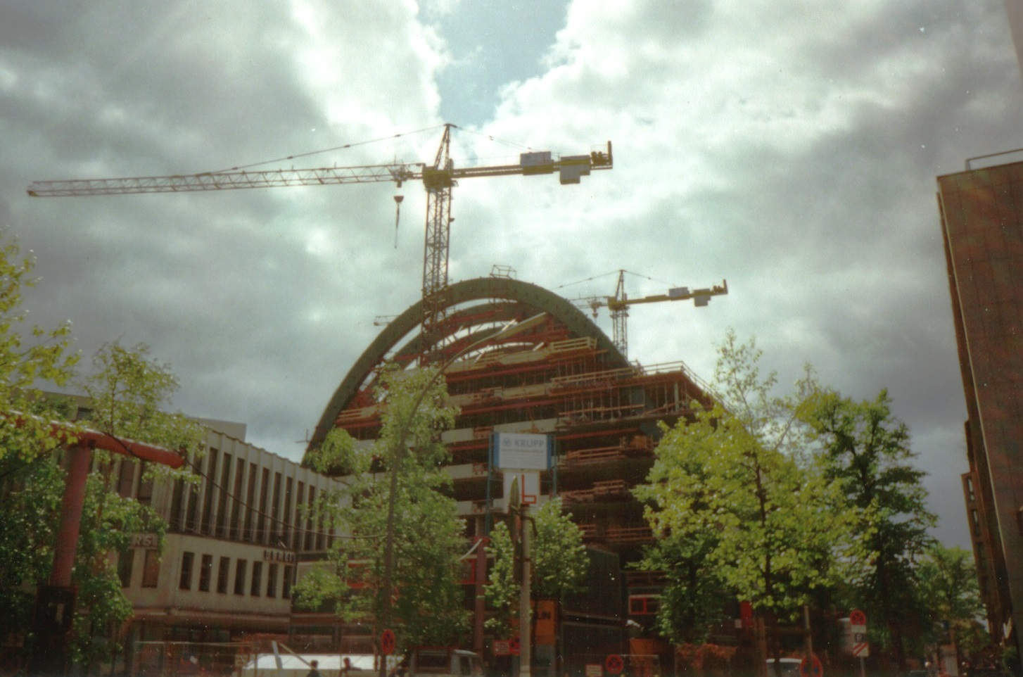 Baustelle Ludwig Erhard Haus Berlin Mai 1996